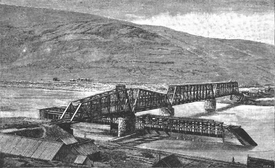 Riparia Bridge over the Snake River, build 1889 by George S. Morison for the Oregon Railway and Navigation Company.